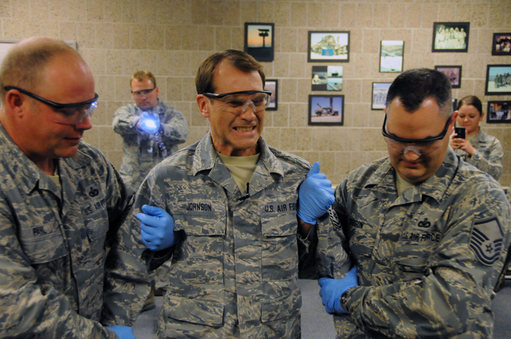 Master Sgt. Eric Johnson, of the 119th Wing public affairs office, center, reacts to the painful effects of a Taser electronic control device (ECD) shot into his back by Capt. Joseph Anderson, the 119th Security Forces commander, Oct. 17 as Master Sgt. Jarrod Pahl, left, and Master Sgt. Steven Gibson support him for safety reasons at the North Dakota Air National Guard, Fargo, N.D. The ECD training is an annual requirement for the Air National Guard security forces personnel. Johnson volunteered to experience the effects of the ECD during the training, and Anderson is a certified instructor who is also a city of Fargo police officer while in civilian status. (DoD photo by Senior Master Sgt. David H. Lipp) (Released)